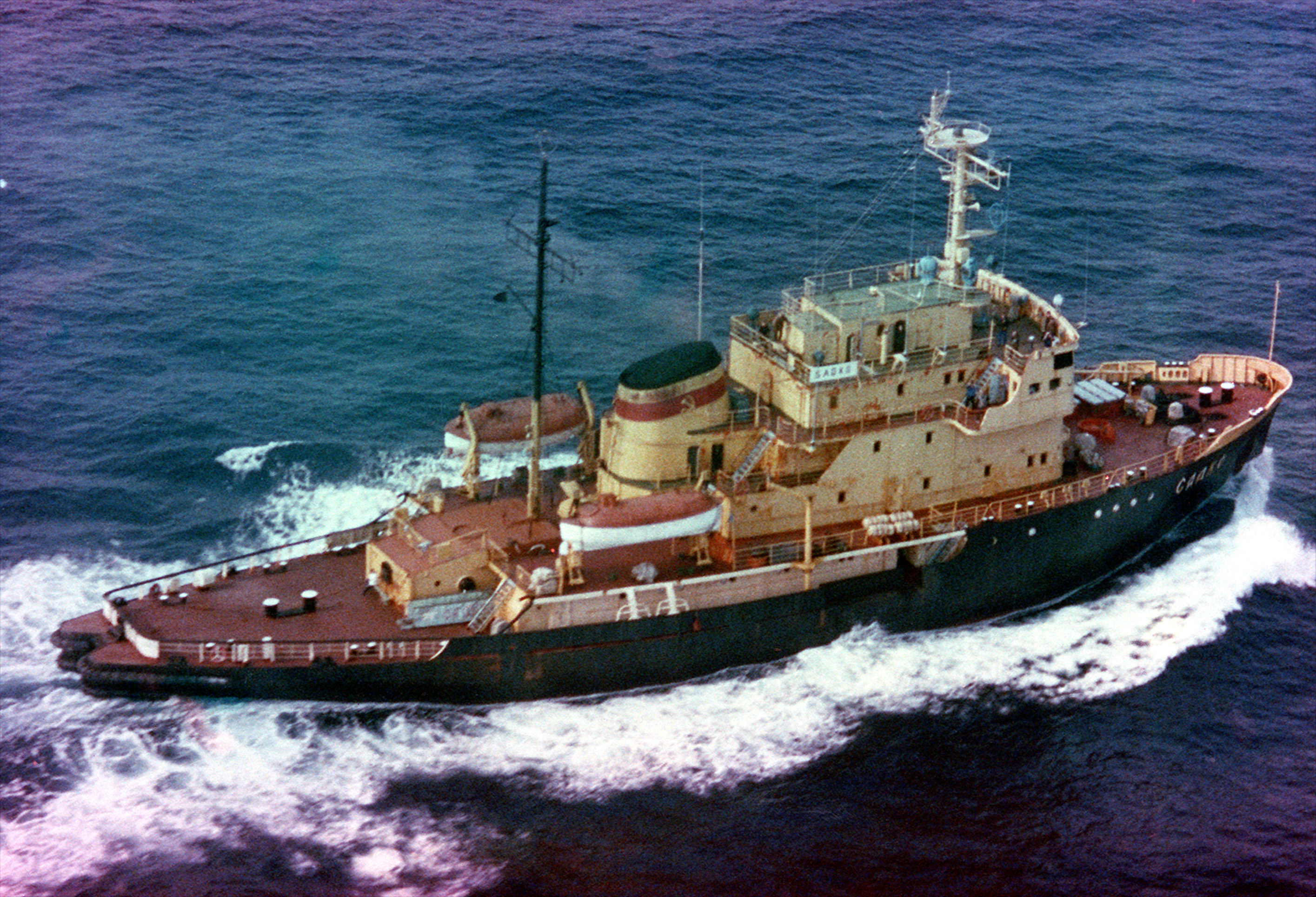 A starboard view of the Soviet Dobrynya Nikitich class icebreaker Sadko underway. (Substandard image)